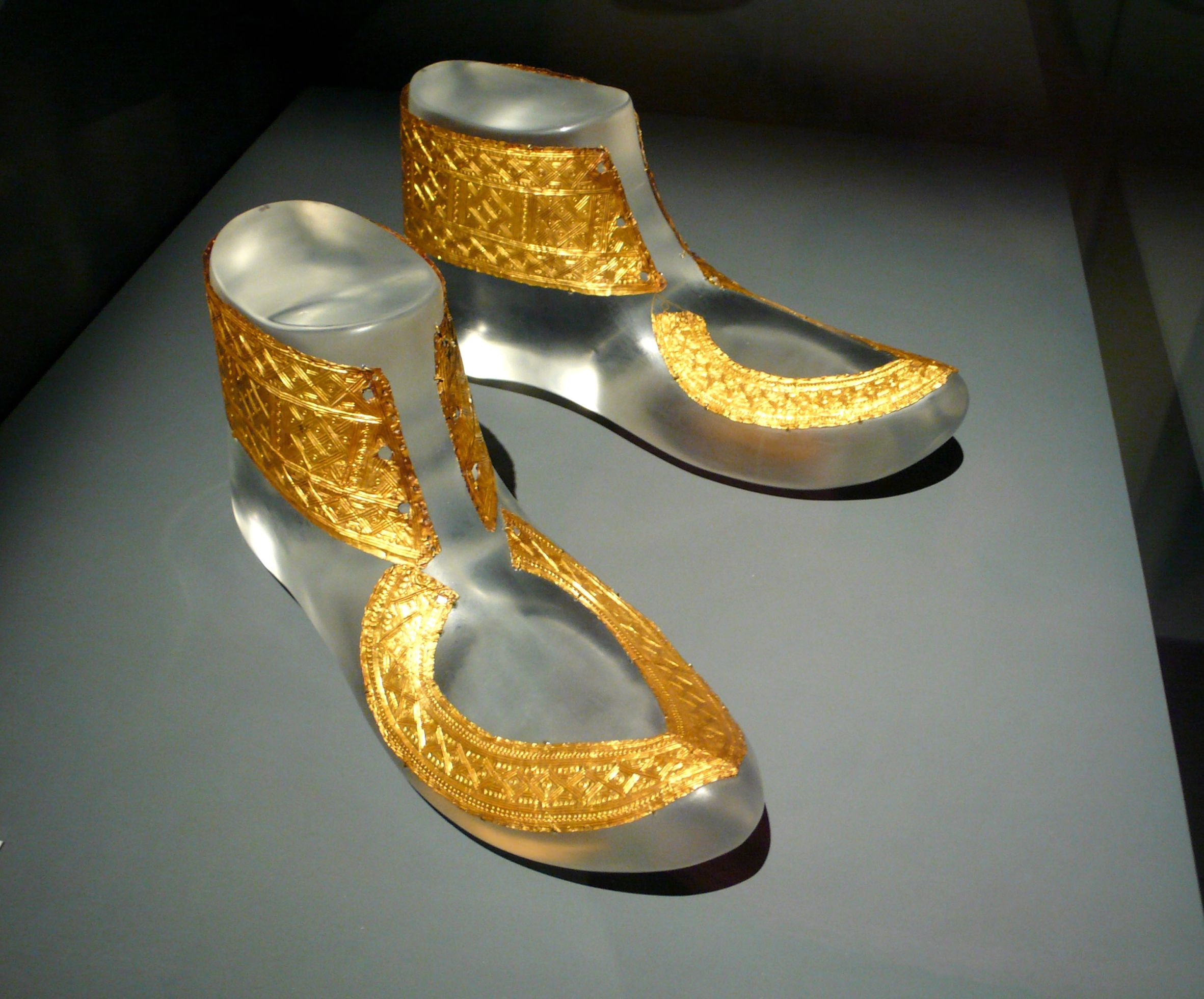 Hochdorf Chieftain's Grave, Germany. About 530 BC The Hochdorf Chieftain's Grave is a richly-furnished burial chamber. Regarded as the "Tutankamon of the Celts", it was discovered in 1977 near Hochdorf an der Enz in Baden-Württemberg, Germany). A man of 40 years old, 6 ft 2 in (188 cm) tall was laid out on a bronze couch. He had been buried with a gold-plated torc on his neck, a bracelet on his right arm, and most notably, thin embossed gold plaques were on his now-disintigrated shoes. At the foot of the couch was a large cauldron decorated with three lions around the brim. The east side of the tomb contained a four-wheeled wagon holding a set of bronze dishes - enough to serve nine people. Kunst der Kelten, Historisches Museum Bern. Art of the Celts, Historic Museum of Bern.